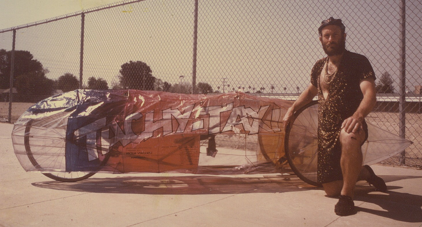 Victor Vincente of America with Tachy Taxi of which he designed, built and raced